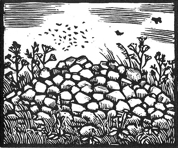 The Stony Field